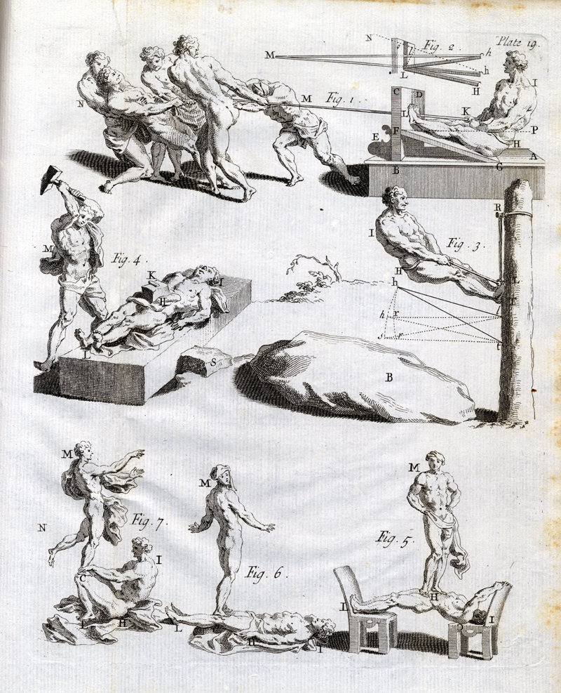 A Course of Experimental Philosophy, 1734, vol. 1 Plate 19